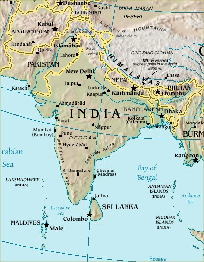 The image is cropped from Image:Sino-Indian Geography.png, created and published by the Central Intelligence Agency of the United States of America in en:2004. Note This map represents the line of control in Kashmir as the international border between the Republic of India and Islamic Republic of Pakistan, a position considered unacceptable to either party.